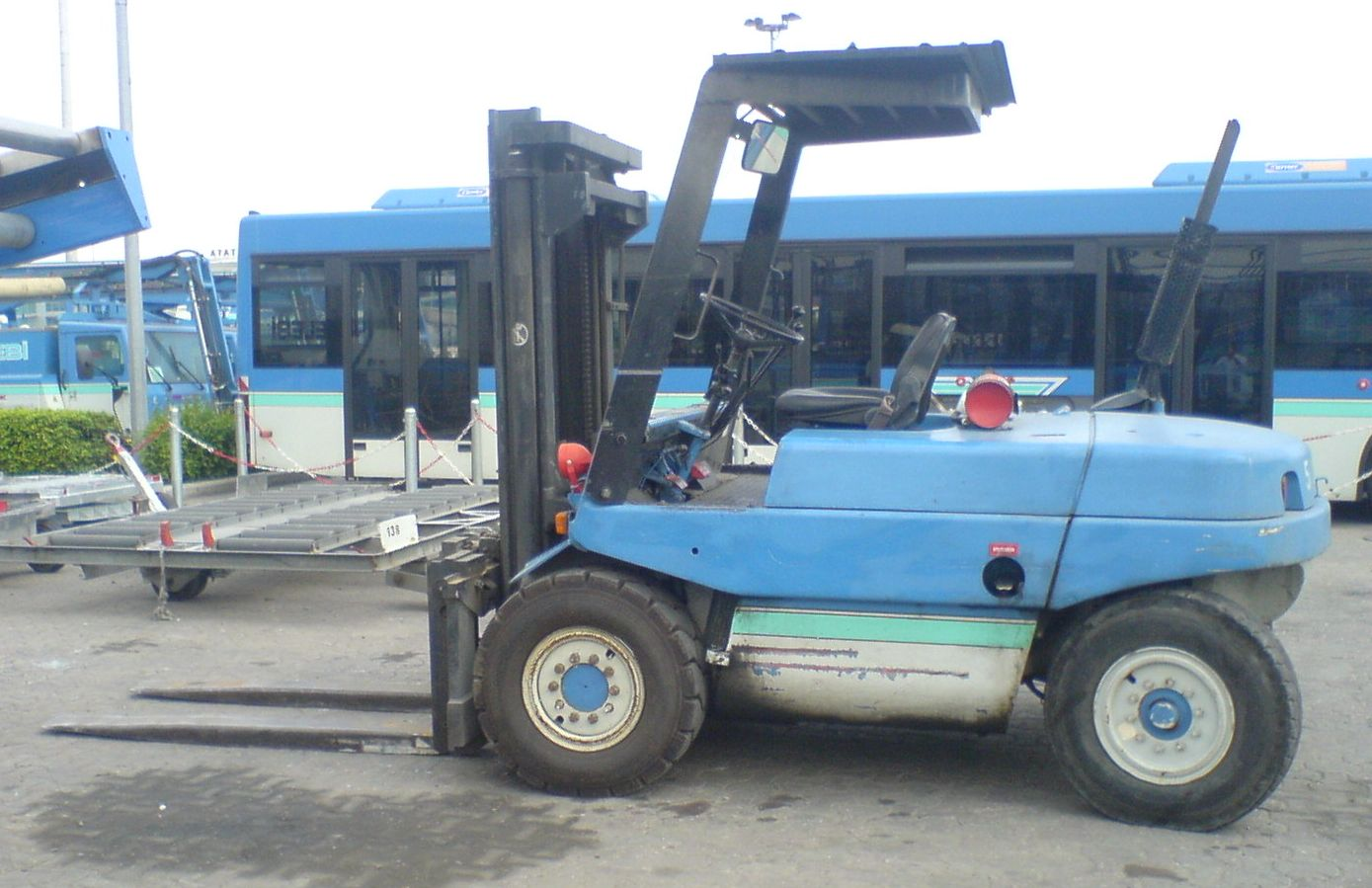 A forklift with diesel engine.